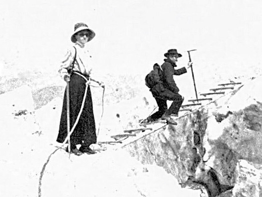 Photograph by Frederick Burlingham of his wife Léontine and their guide Auguste Payot on their ascent of Mont Blanc in the Alps, 1913 (photo date revised); screenshot of this illustration facing page 52 in Frederick Burlingham's 1914 book How to Become an Alpinist